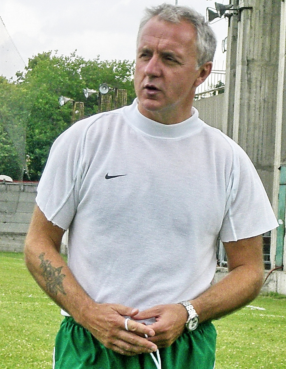 Bobby Davison, english football coach, former football player